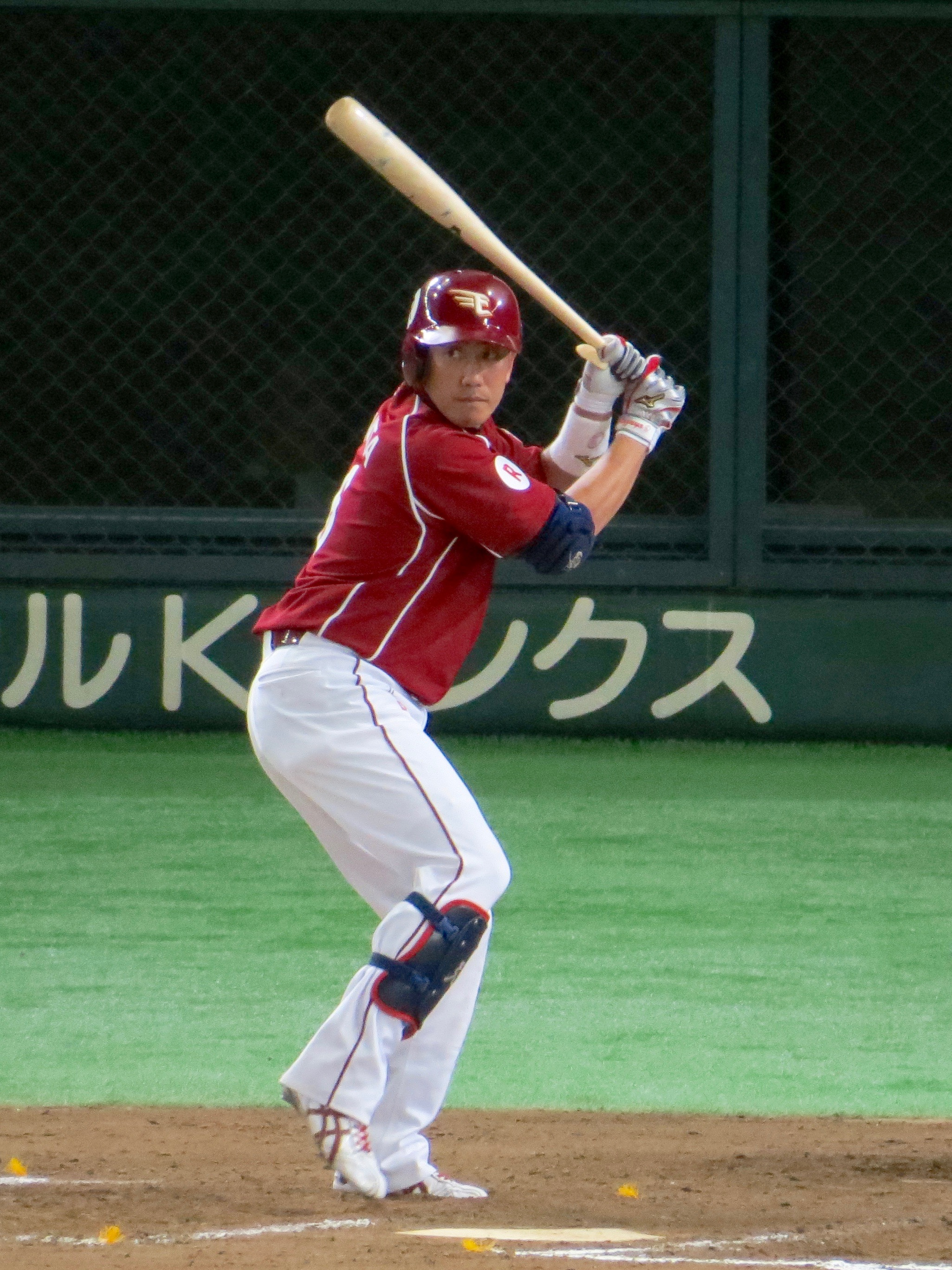 Kazuya Fujita, infielder of the Tohoku Rakuten Golden Eagles, at Tokyo Dome